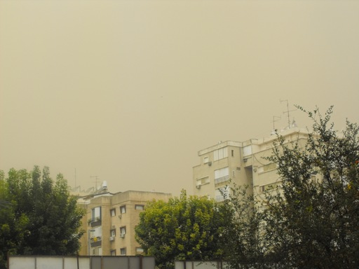 Wind, rain, dust & damage